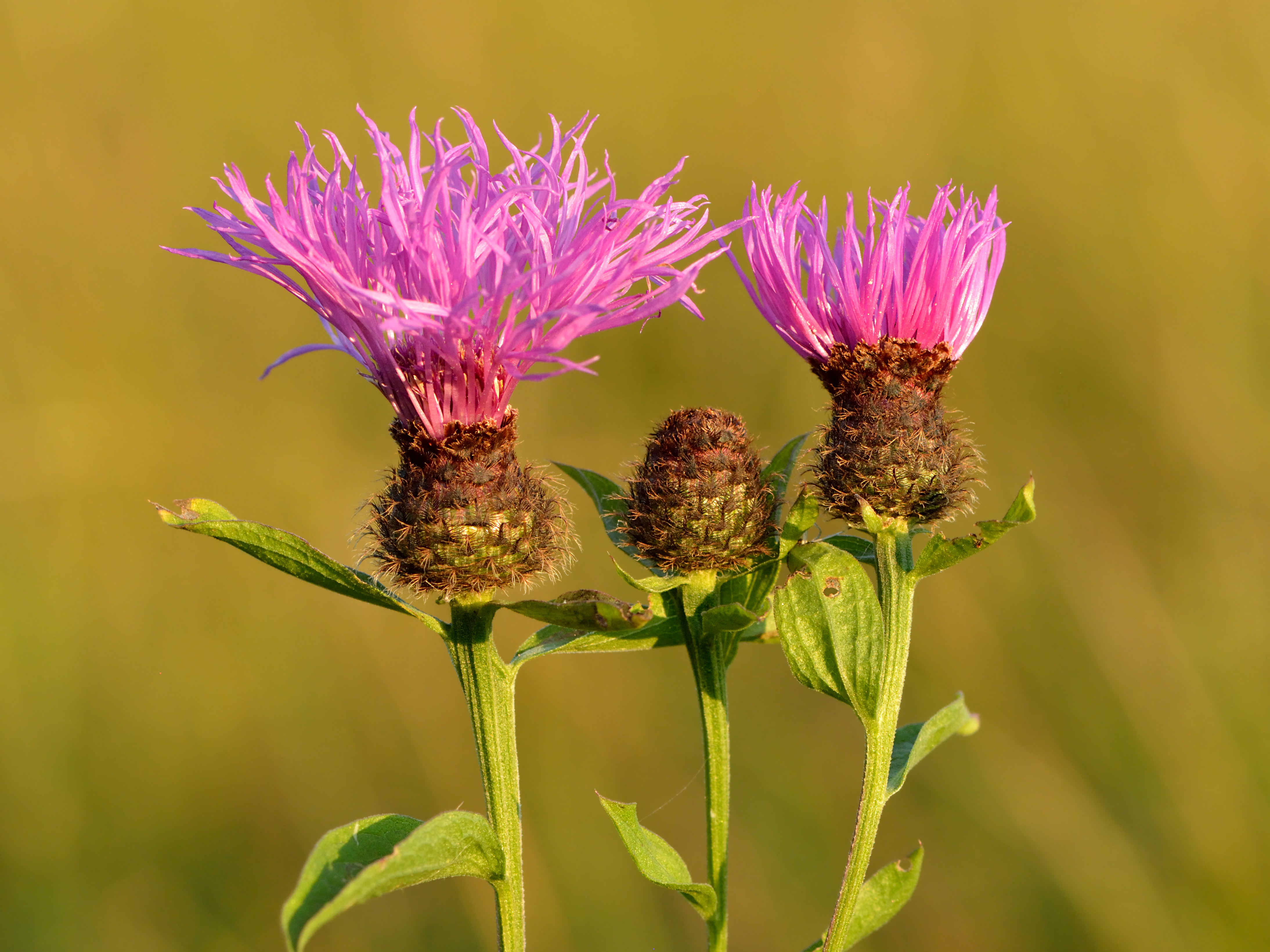 Wig knapweed (Centaurea phrygia). Keila, Northwestern Estonia.